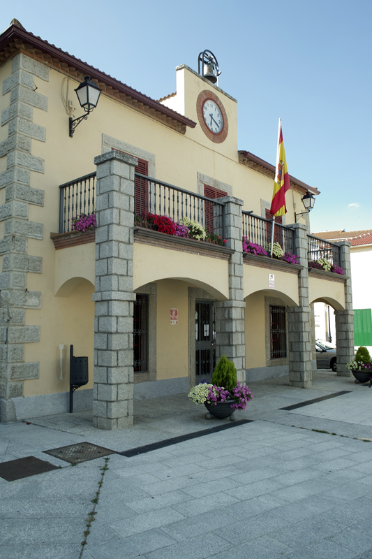 Canencia city council. (Comunidad de Madrid, Spain)